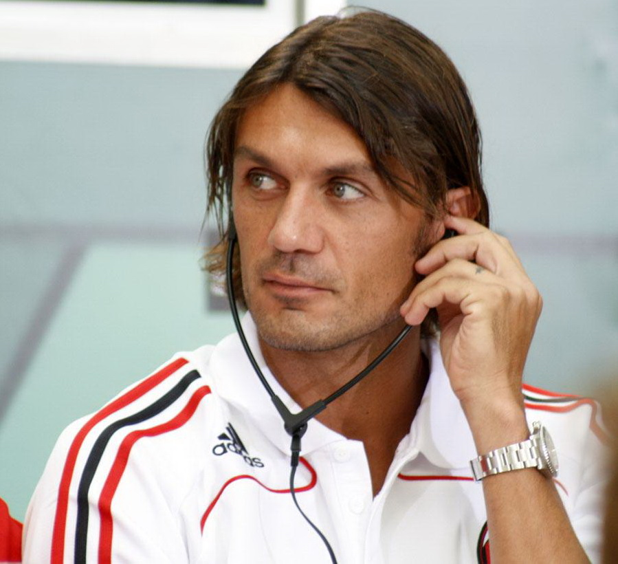 Paolo Maldini